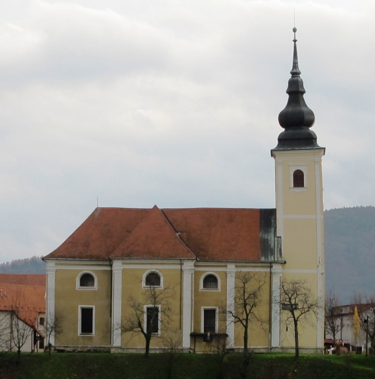 Saint Joseph's Church in the suburb of Studenci, Maribor, Slovenia.